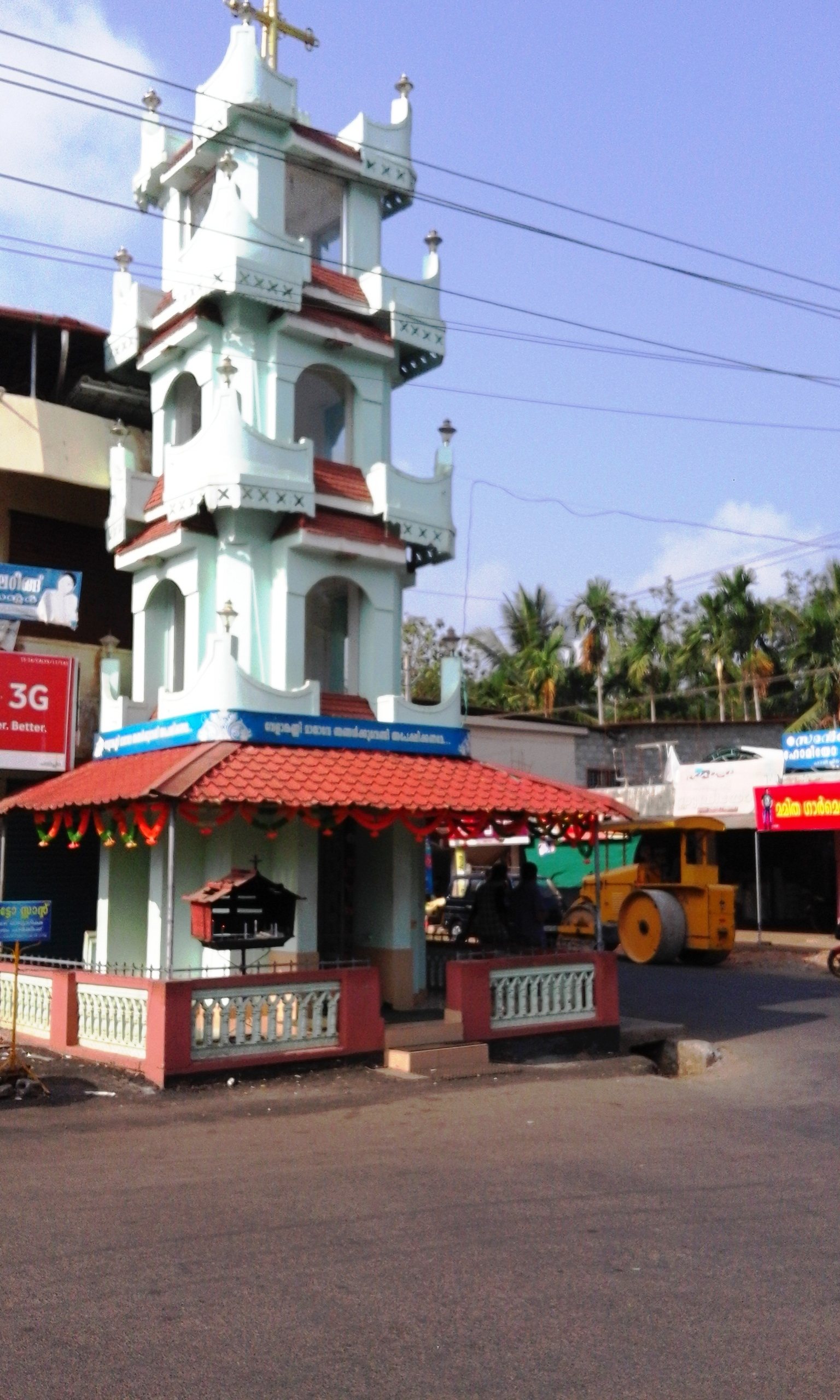 Pulpally area, Wayanad district, Kerala, India.